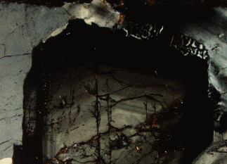 Rim myrmekite on zoned plagioclase against interstitial microcline (gray and black). Courtesy Dr. Lorence G. Collins